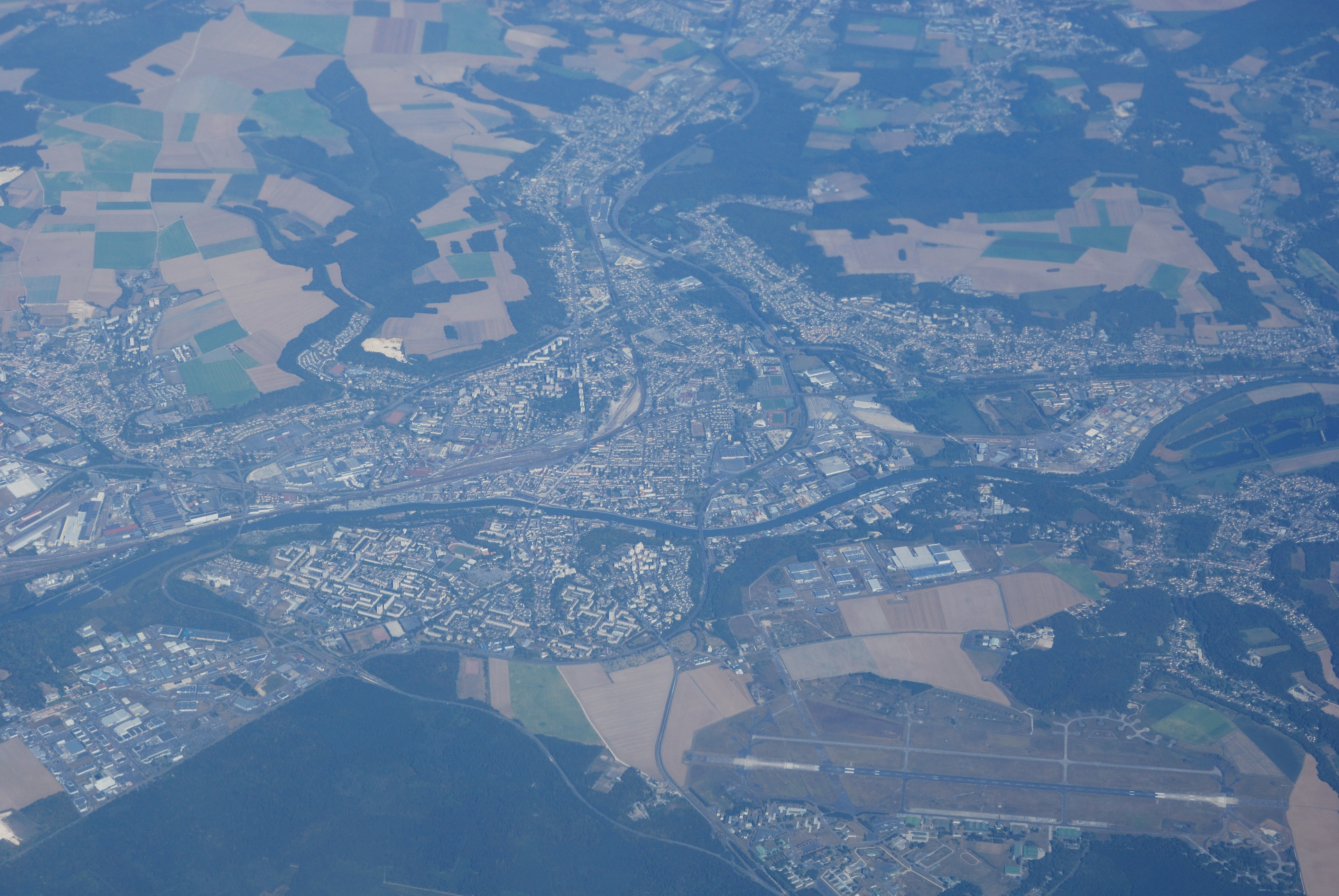 Creil, France